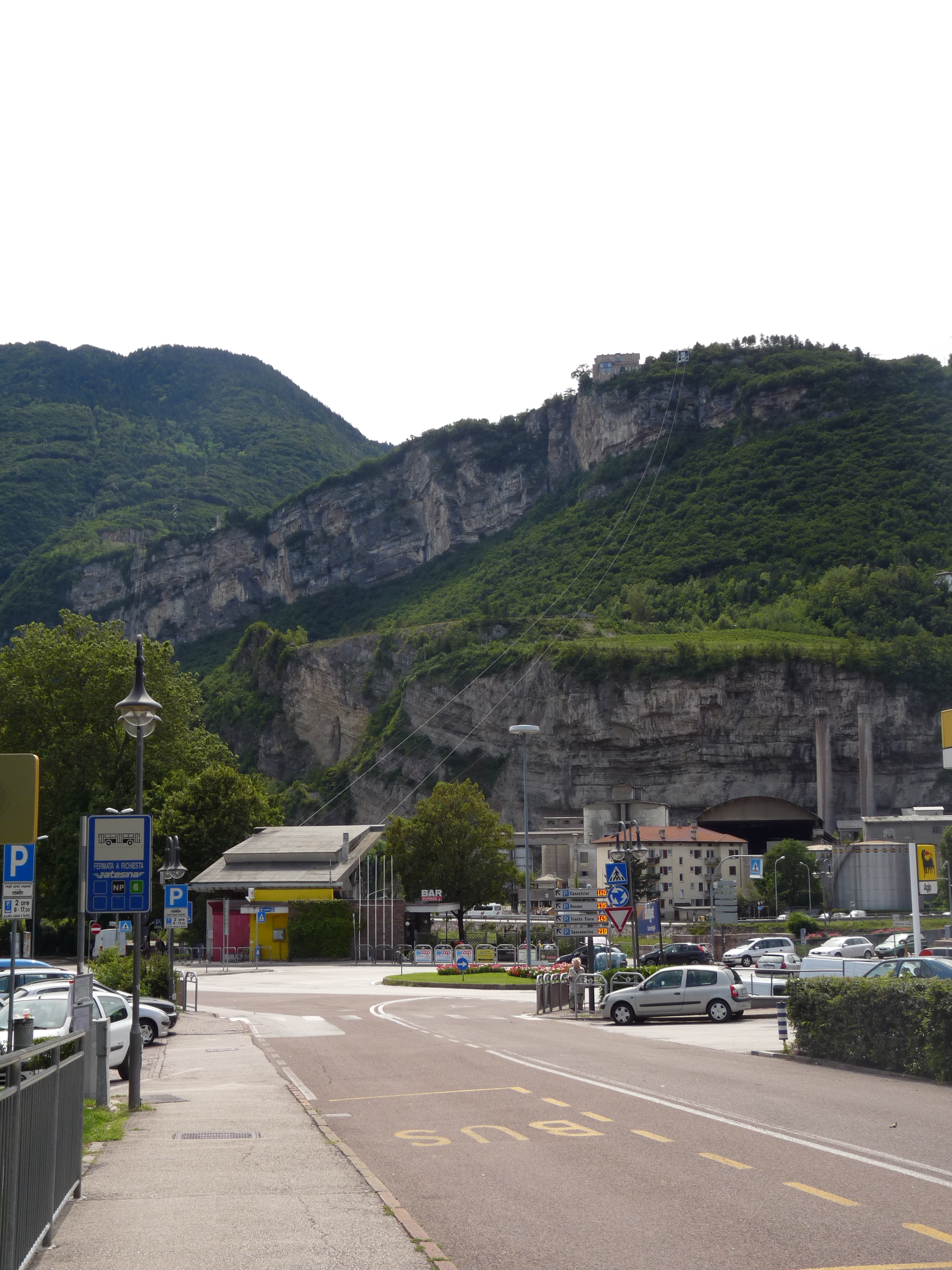 Trento (Italy): Trento-Sardagna cableway